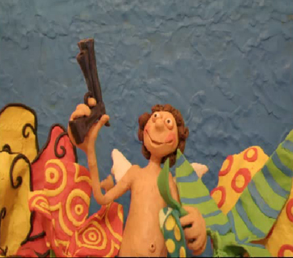 A frame from music video Bang bang of Polish band called Voo Voo, directed by Monika Kuczyniecka.